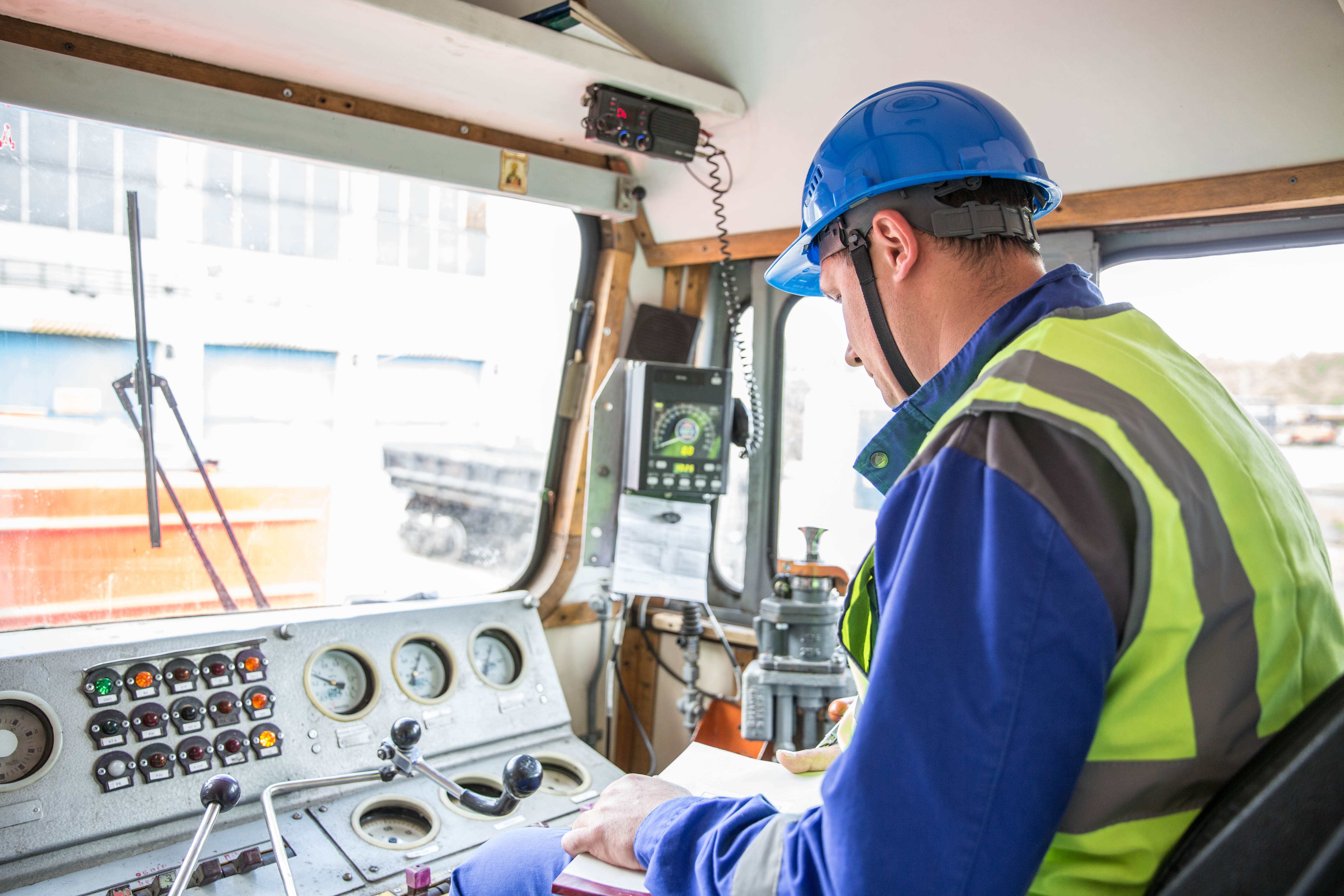 A driving cabin of electro-diesel locomotive OPE1-293